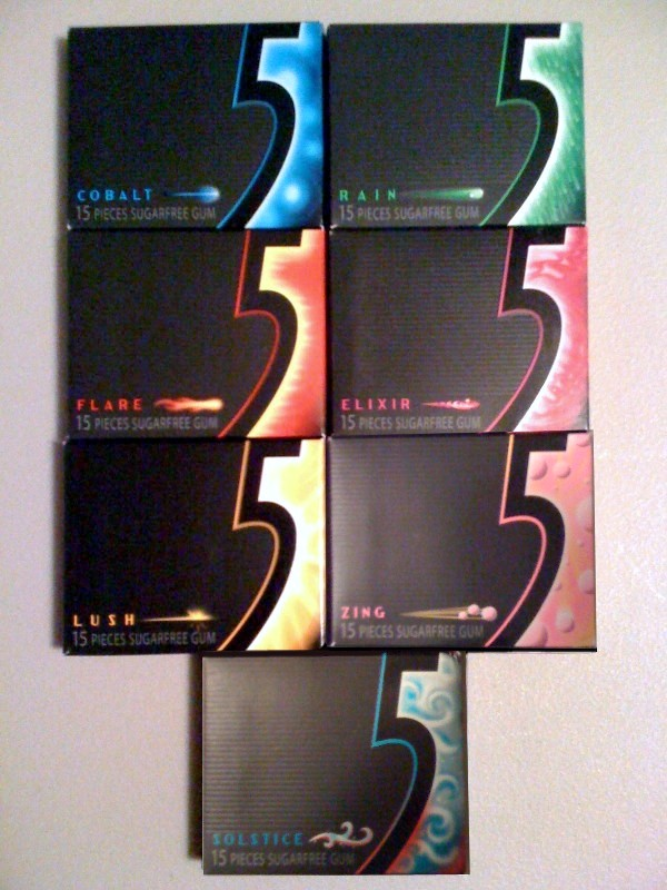 5 gum packages. (Photographed in Florida, USA.)